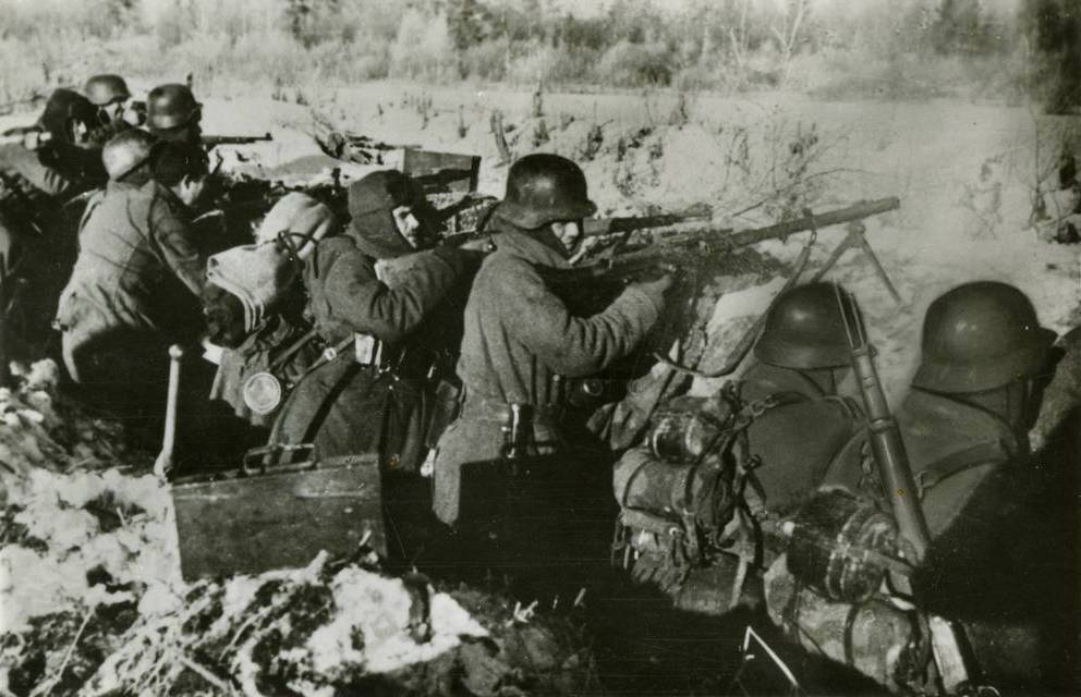 Spanish Blue Division soldiers at a dug-up.